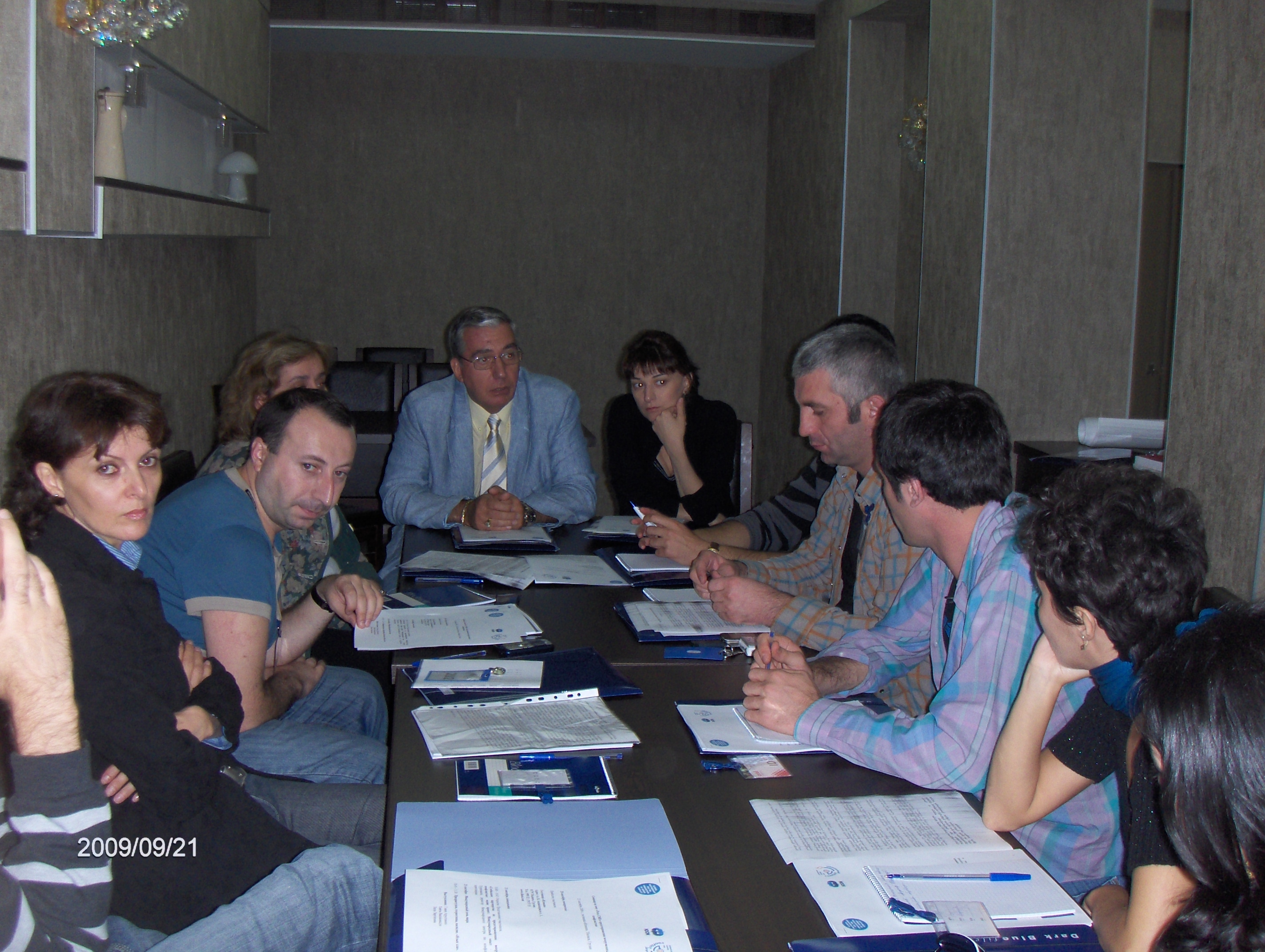 Георгий Хуцишвили